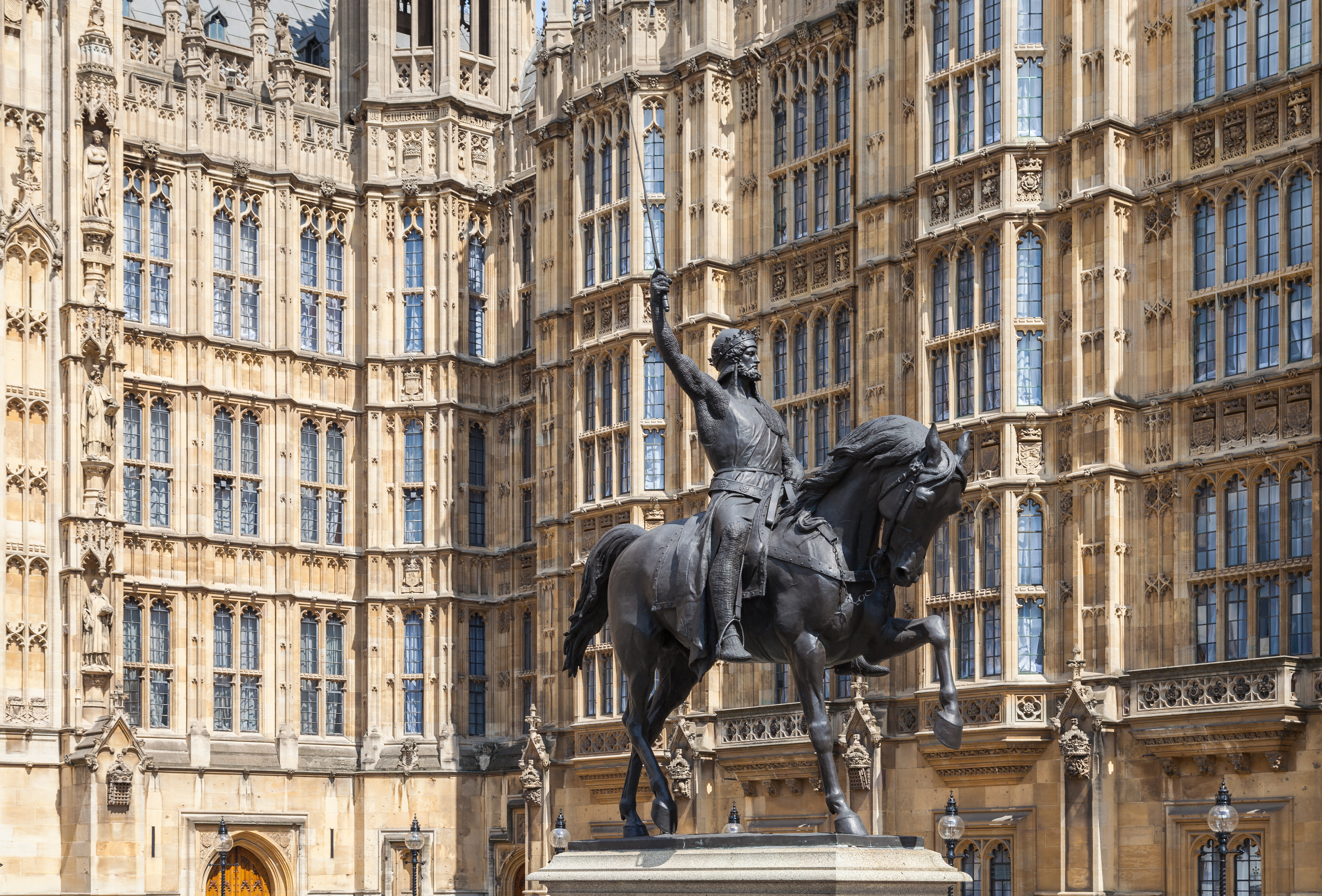 Statue of Richard I, Westminster Palace, London, England